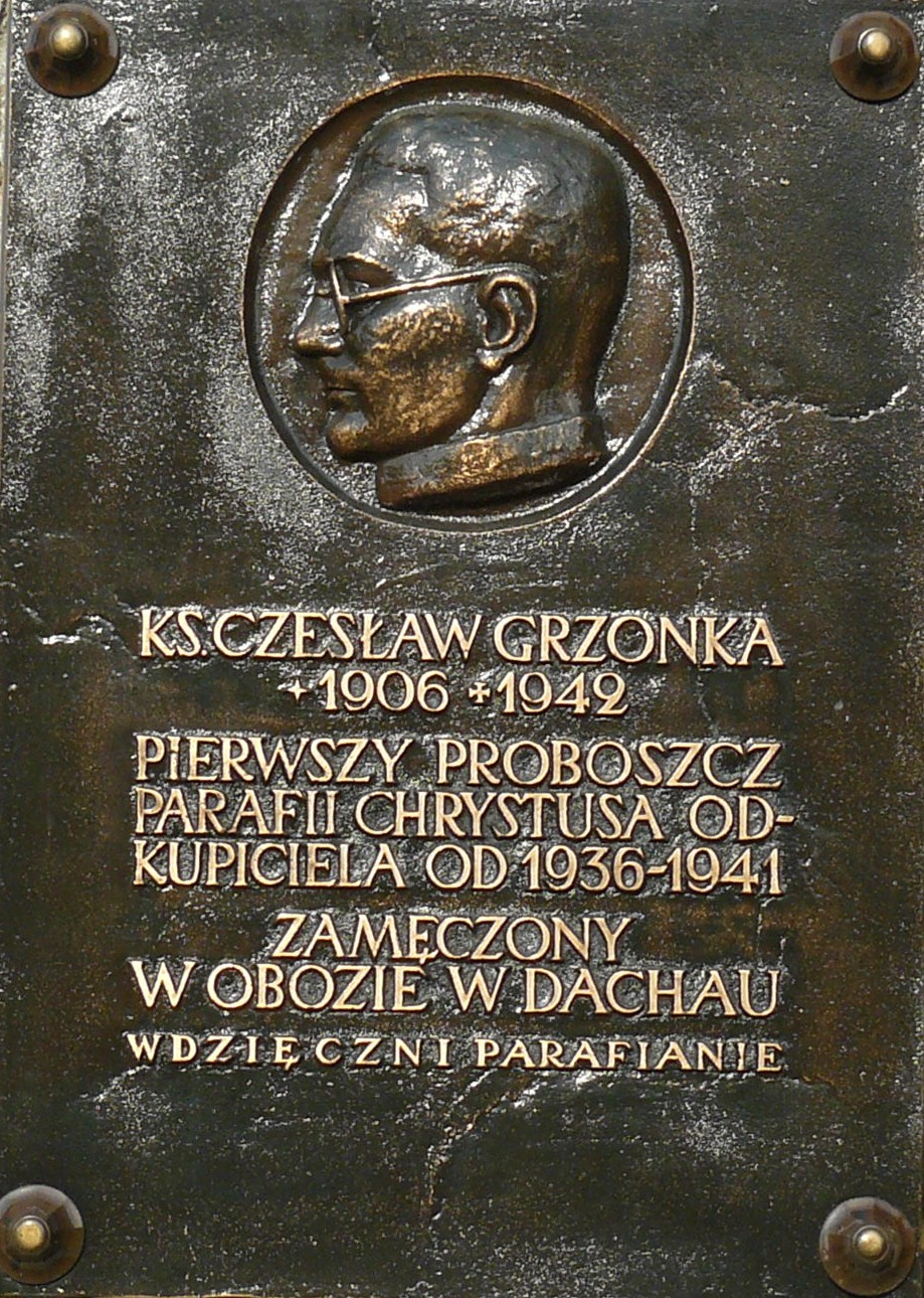 Czeslaw Grzonka Plaque, Poznan, Warszawskie Distr. - Old Churche.